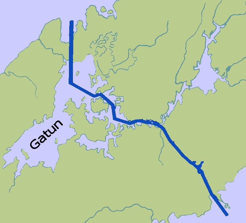 Lake Gatun in Panamá with the Panama Canal